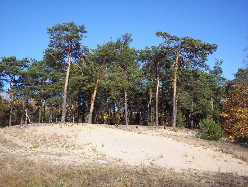 Dunes in Międzyborów, Poland.